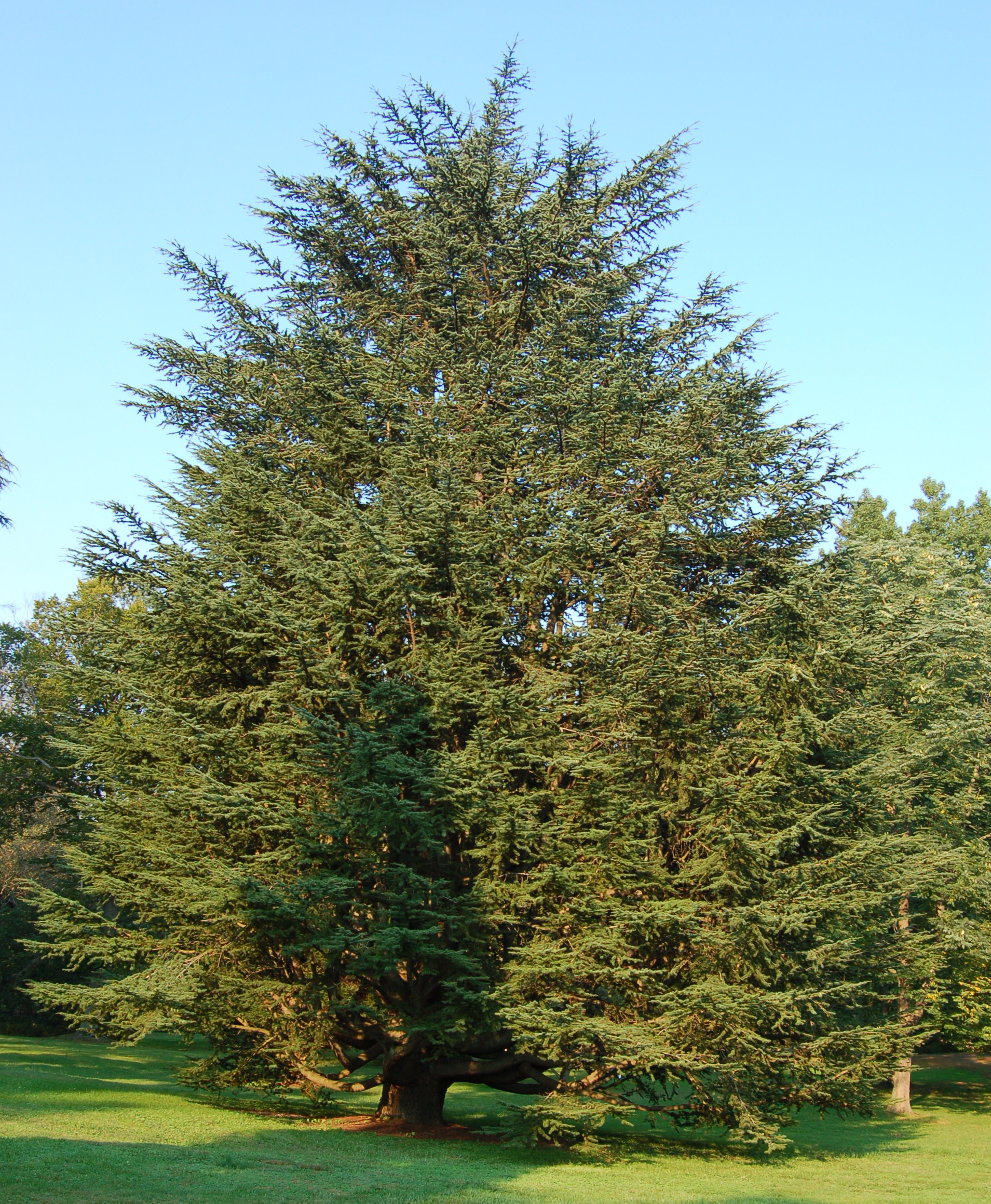 Photograph of the Atlas Cedaren (Cedrus atlantica en ). Photo taken at the Tyler Arboretum where it was identified.